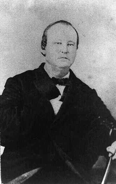 Colonel 15th Texas Infantry, Confederate Brigadier General.